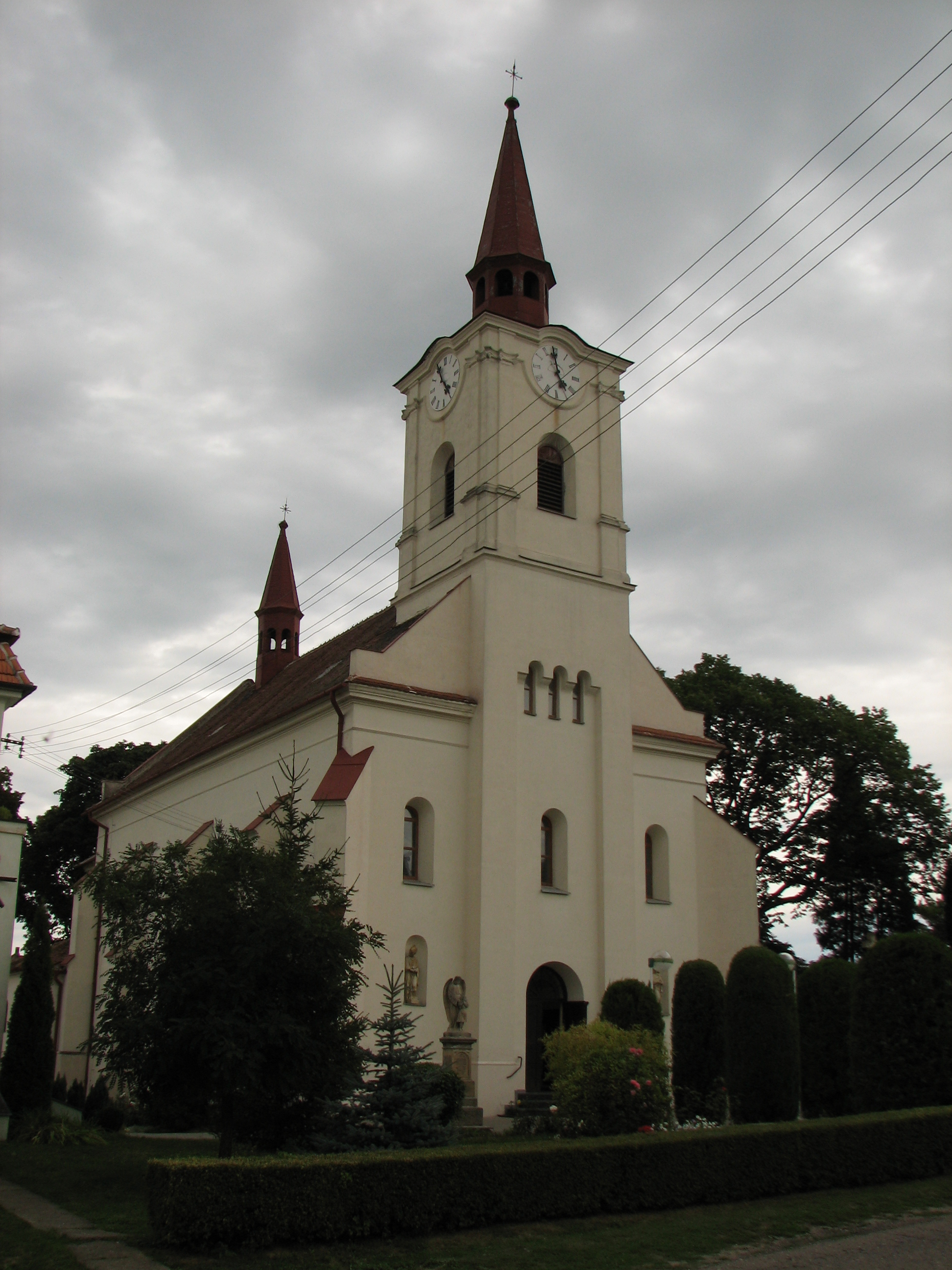 Věteřov - church of Saints Cyril and Method